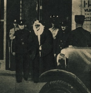 Palestinian rebel leader Farhan al-Sa'di in the custody of the British Palestine Police